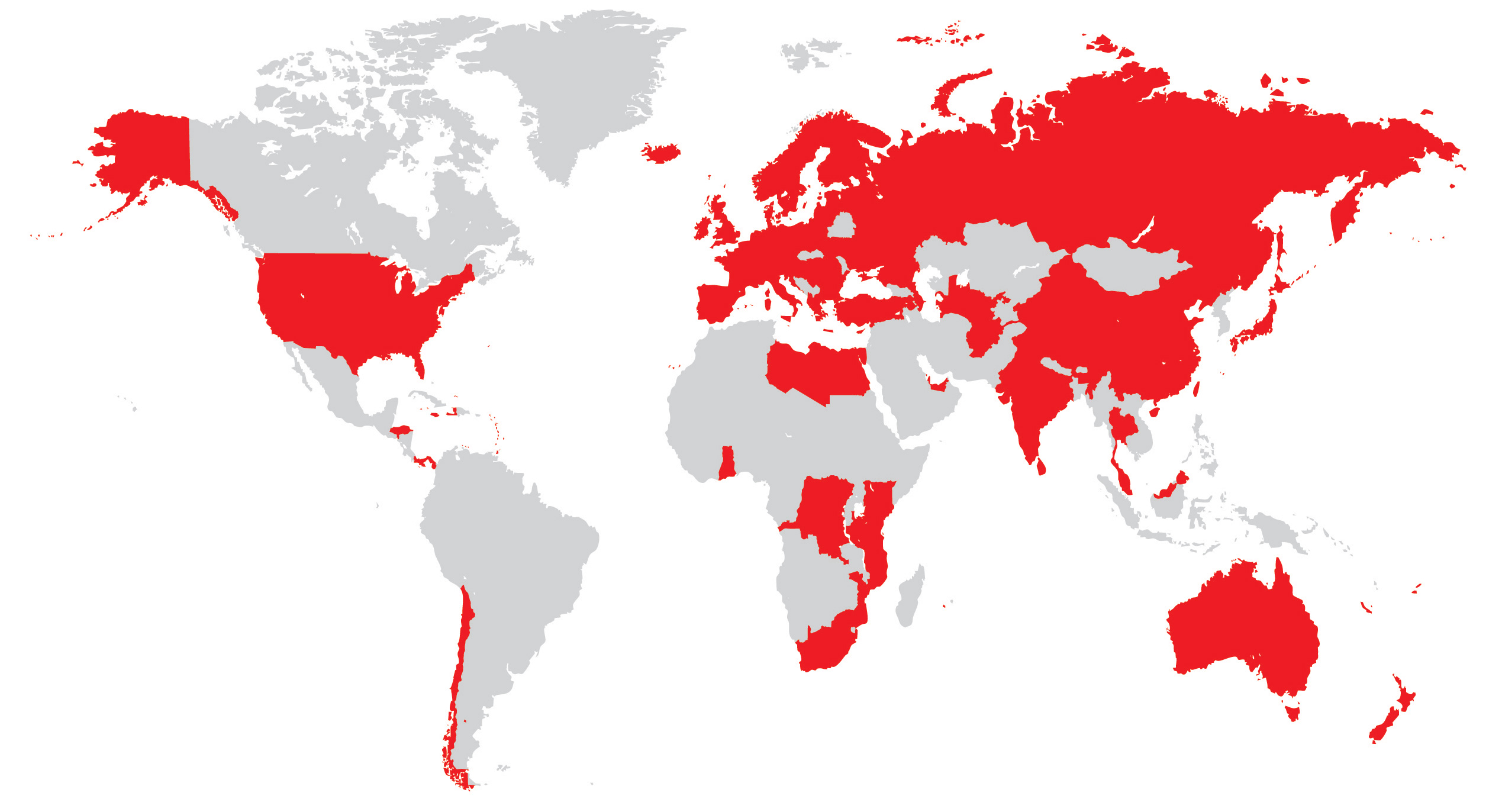 Vodafone Global Enterprise's footprint with its regional marketing hubs